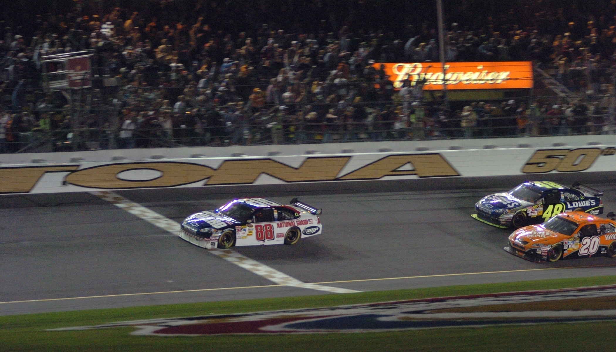 Junior at 2008 Budweiser Shootout